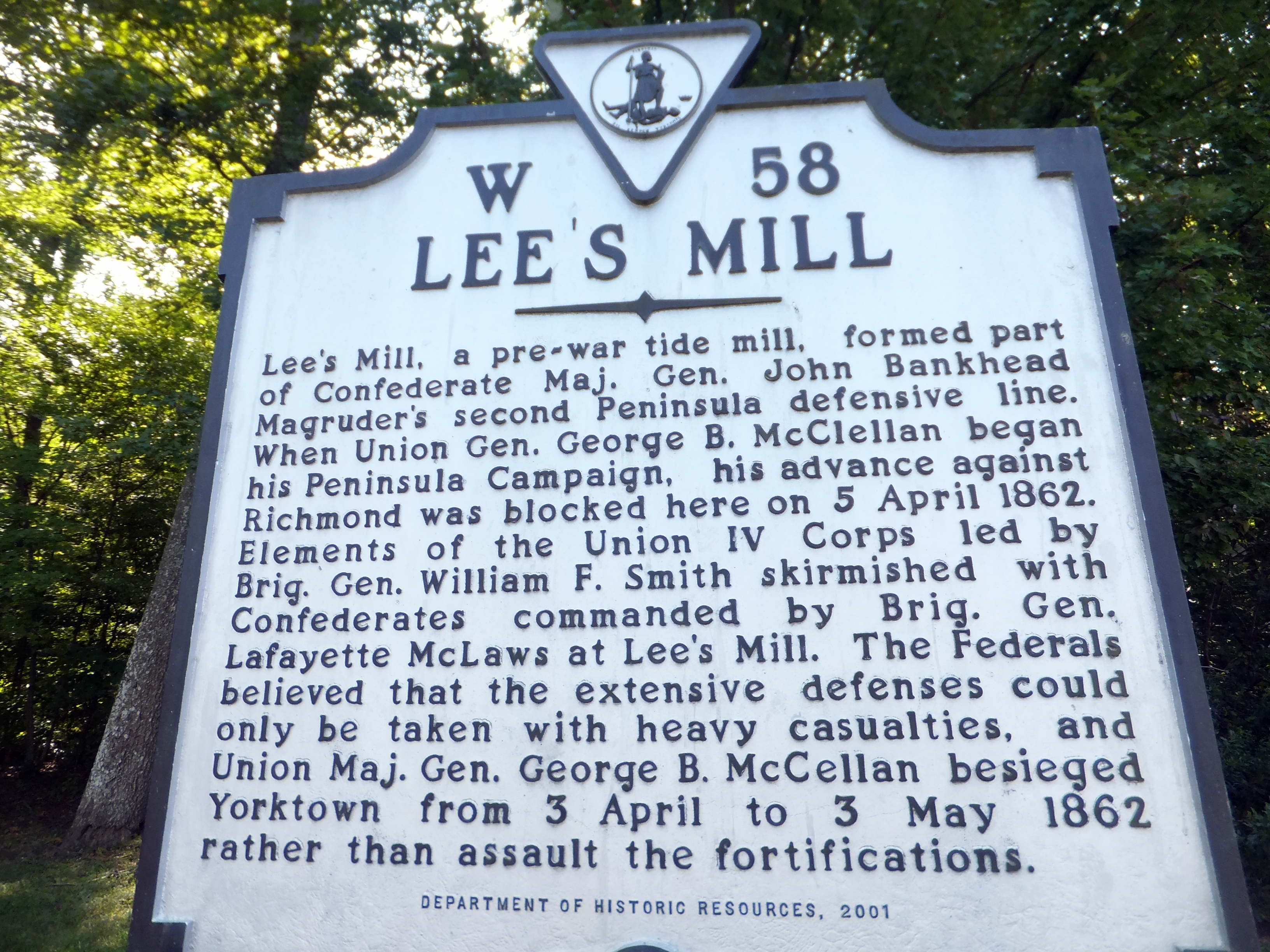 Lee's Mill EarthworksThe marker is all that's left of Lee's Mill, built in 1862 and the site of an important Civil War battle.